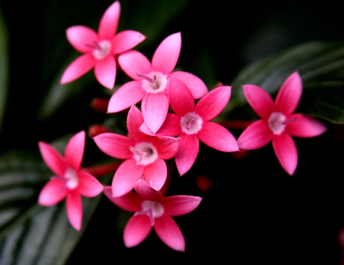 Photo of some Pentas flowers.